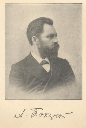 Ardalion Ardalionovich Tokarskii (1859-1901)